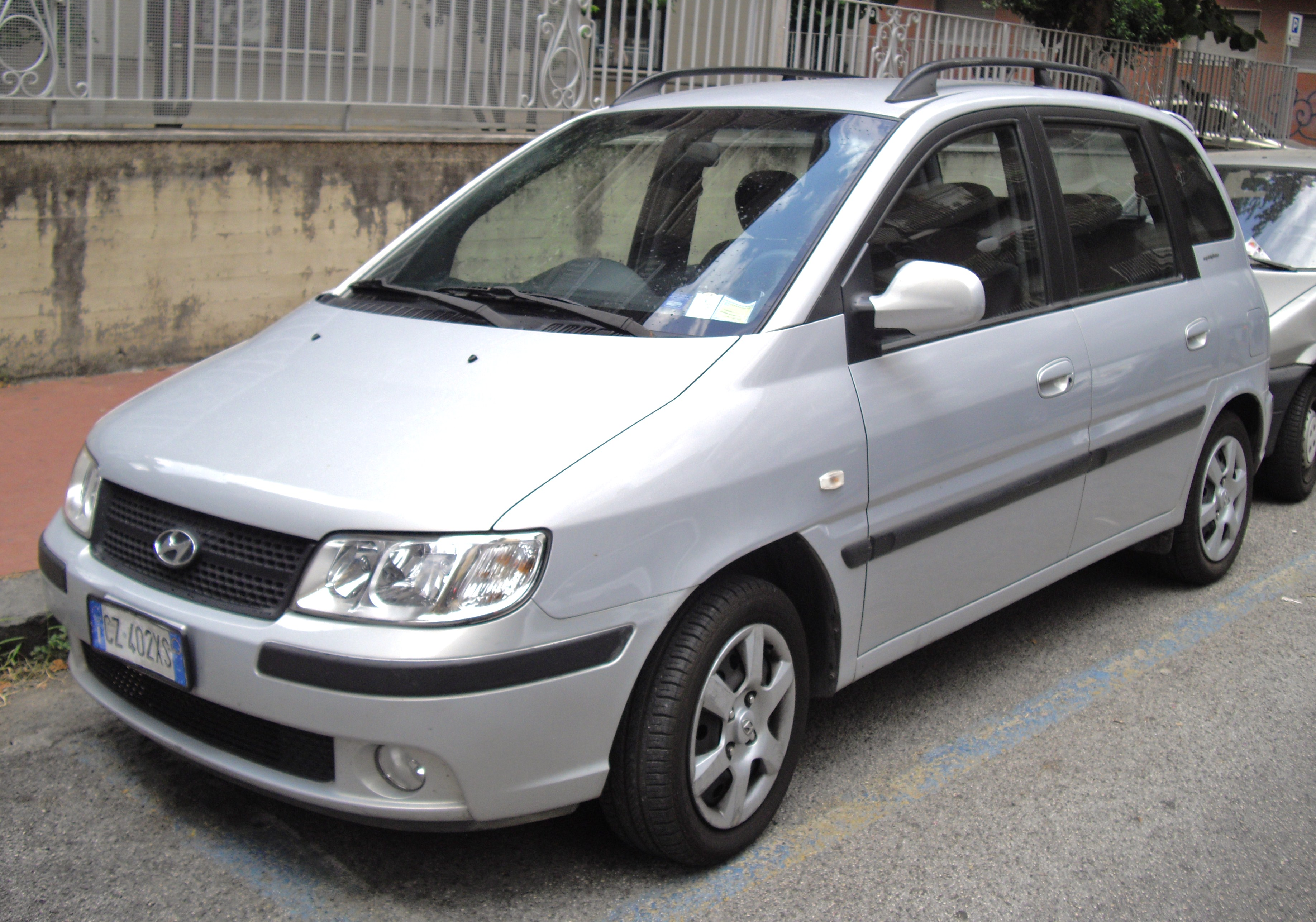 2008 Hyundai Matrix facelift front